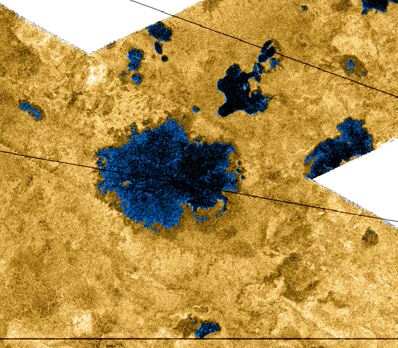 Cassini false-color mosaic of synthetic-aperture radar images of part of Titan's north polar region. Part of the mapped region is covered by what is interpreted as liquid hydrocarbon lakes. These bodies are most likely filled with liquid ethane, methane and dissolved nitrogen. Features thought to be liquid are shown in blue and black, and the areas likely to be solid surface are tinted brown. The hydrocarbon lake at center is Bolsena Lacus; to its upper right is the smaller Sotonera Lacus. Areas without data are in white. The Cassini-Huygens mission is a cooperative project of NASA, the European Space Agency and the Italian Space Agency. The Jet Propulsion Laboratory, a division of the California Institute of Technology in Pasadena, manages the mission for NASA's Science Mission Directorate, Washington, D.C. The Cassini orbiter was designed, developed and assembled at JPL. The radar instrument was built by JPL and the Italian Space Agency, working with team members from the United States and several European countries. For more information about the Cassini-Huygens mission, visit The original NASA image has been modified by rotating 90 degrees clockwise, cropping and converting from tif to jpeg format.